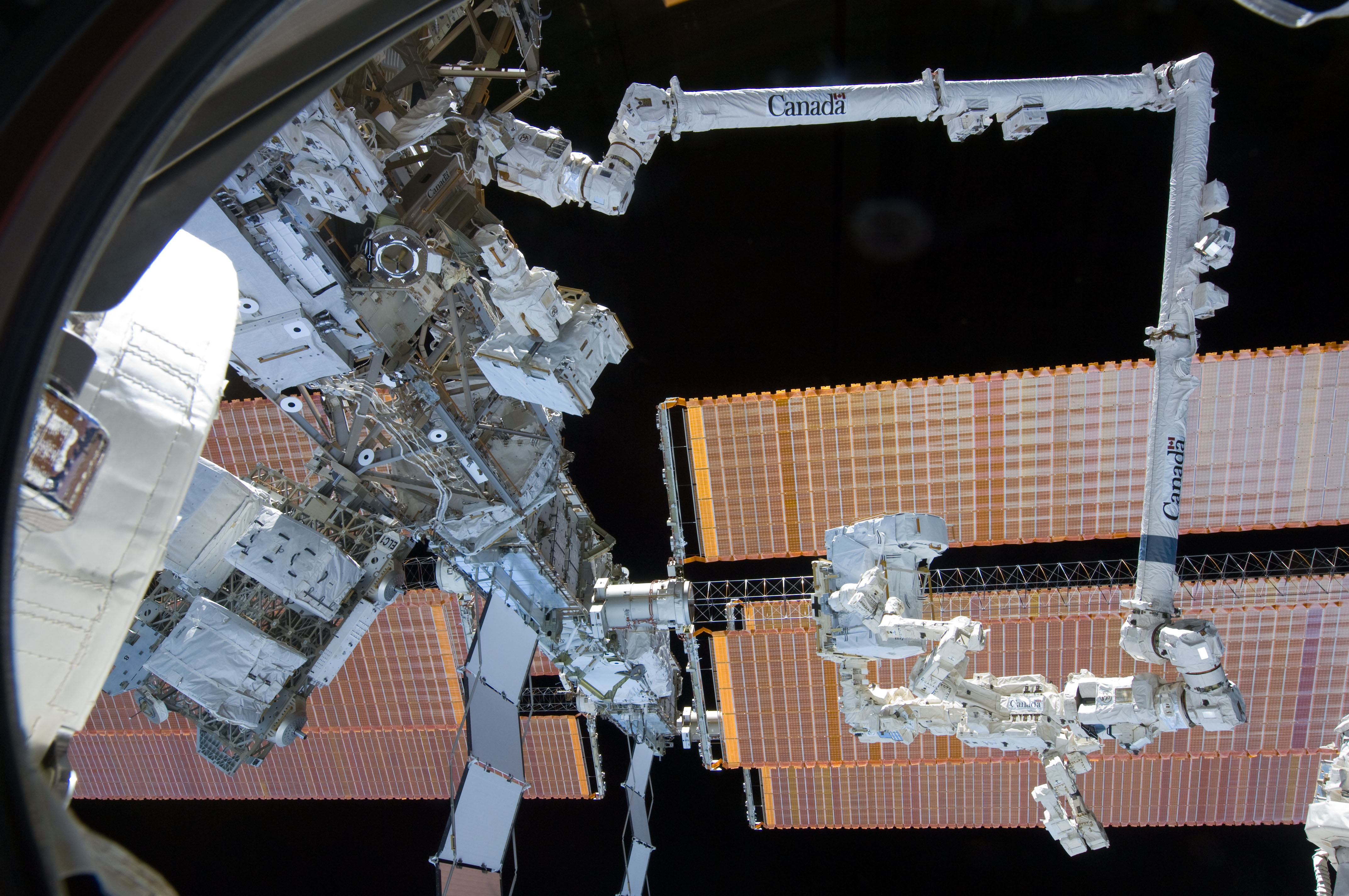 While attached on the end of the Canadarm2, Dextre, the Canadian Space Agency's robotic "handyman", is featured in this image photographed by an Expedition 26 crew member aboard the International Space Station. During the activities, Dextre unpacked two critical pieces of equipment delivered by Japan's Kounotori2 spacecraft.